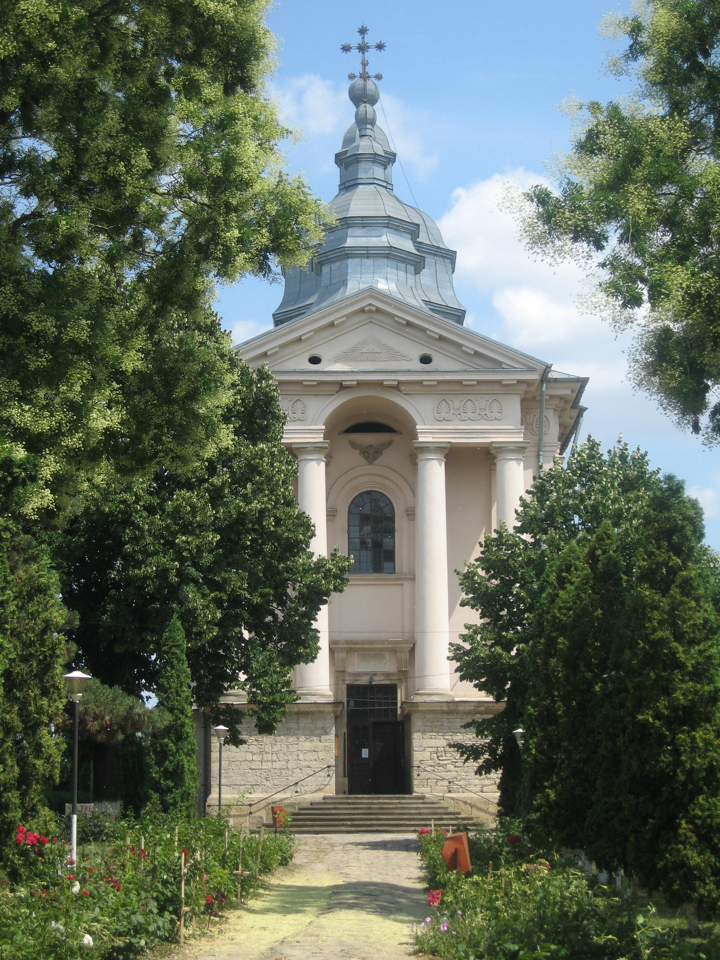 Biserica Mănăstirii Frumoasa